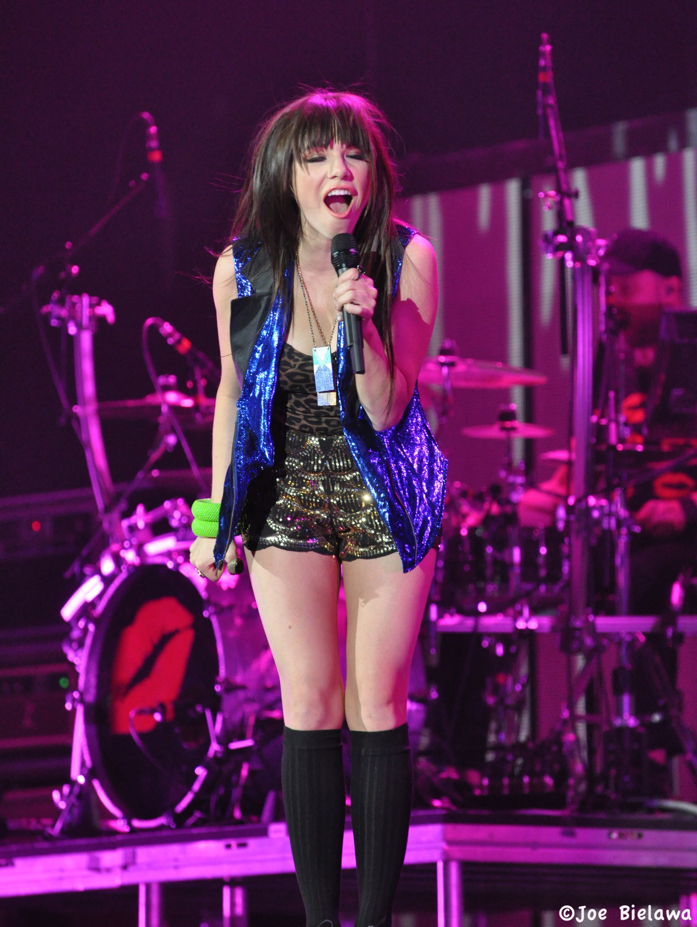 Carly Rae Jepson-DSC_0269-10.20.12